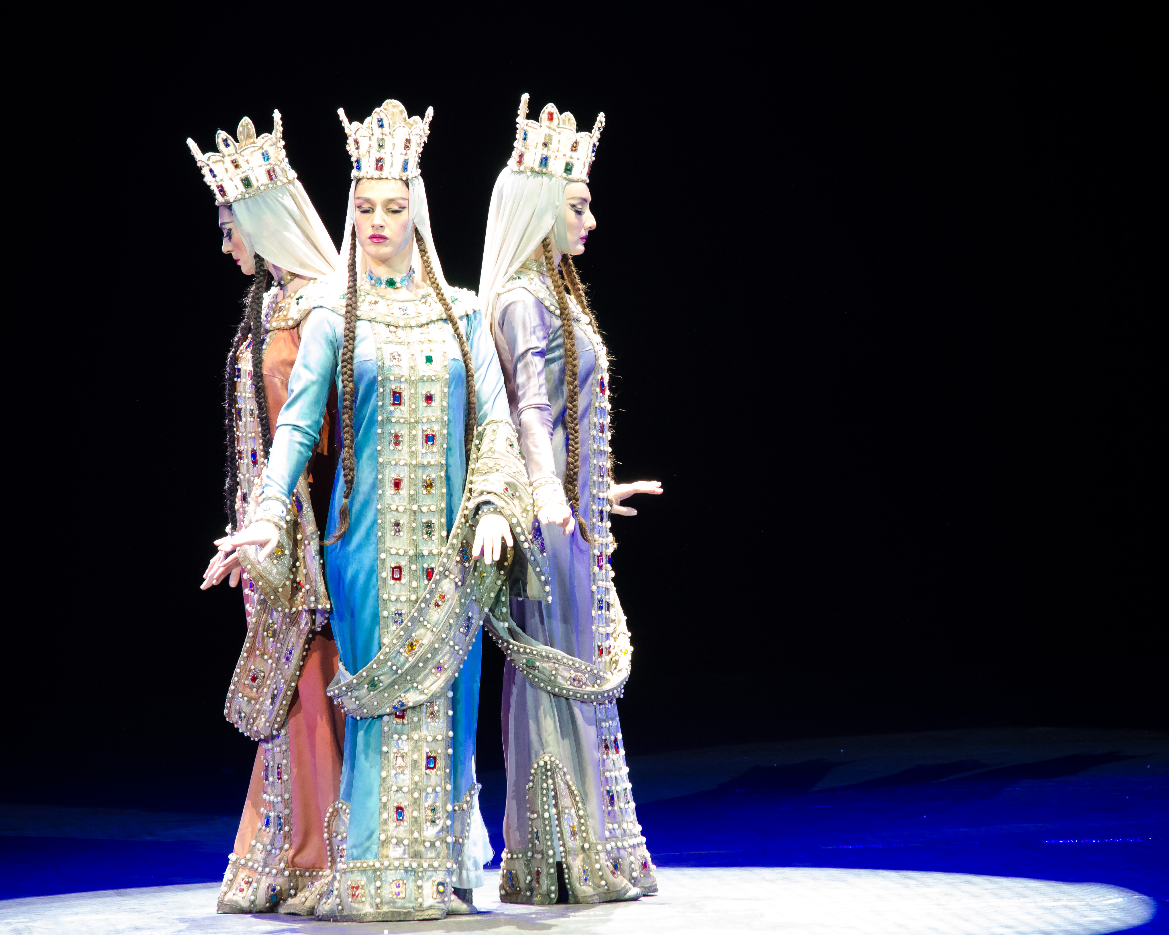 Georgian Dancers